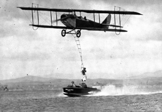 Curtiss JN-4 "barnstormer" with wingwalker being picked up by a boat